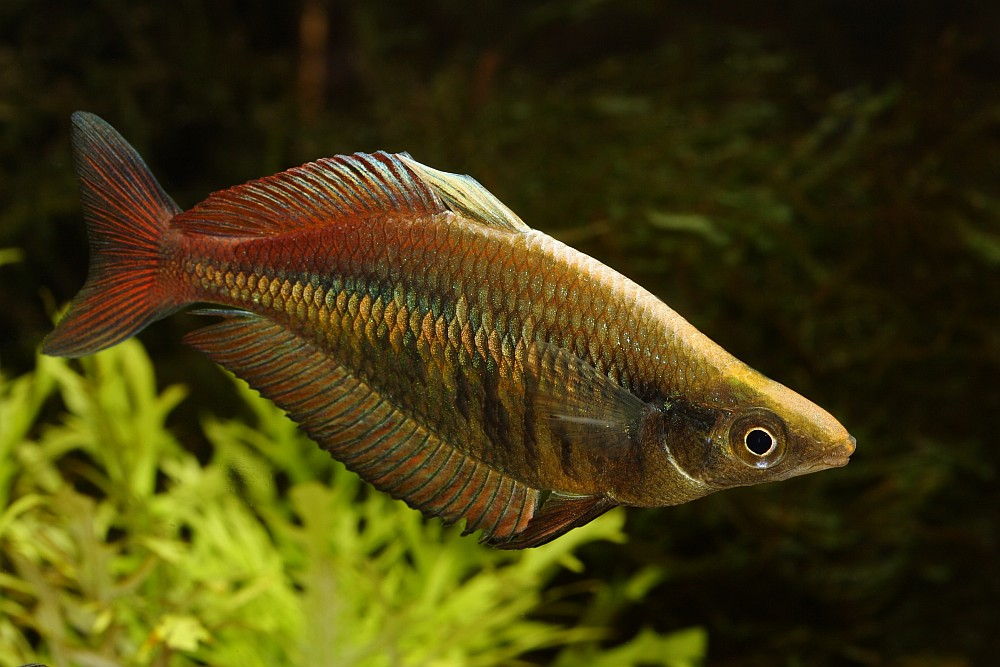 Barred Rainbowfish (Chilatherina fasciata) from Pagai Village (Mamberamo, West Papua) - male - in aquarium.